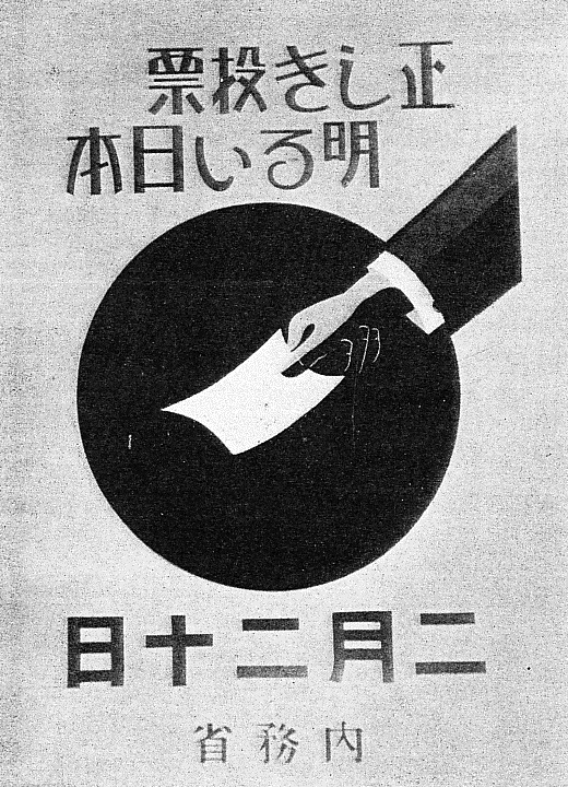 1932 Japanese General Election Poster